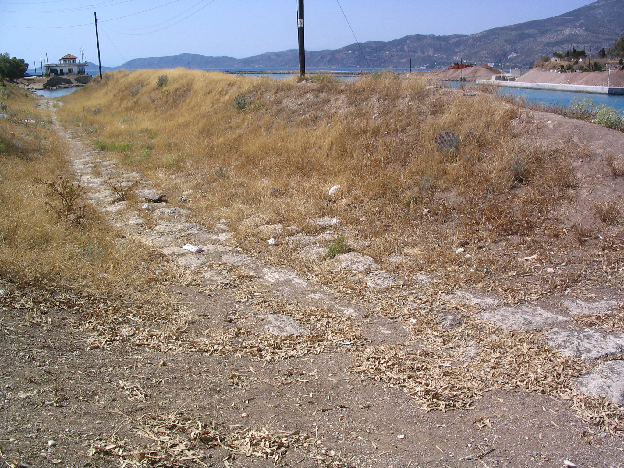 Western end of the ancient Greek ship trackway Diolkos across the Isthmus of Corinth in Greece. Bank erosion of the adjacent Canal of Corinth has damaged the ancient ashlar paving.